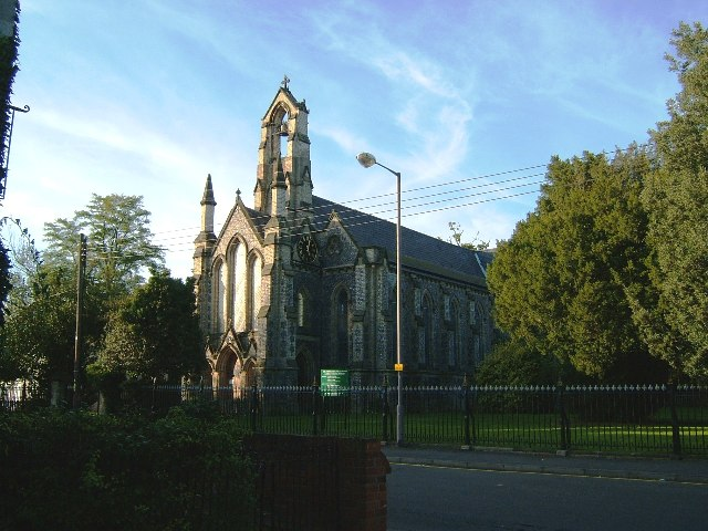 Catholic Parish Church, Witham, Essex. Holy Family and All Saints Catholic Church, Guithavon Street.